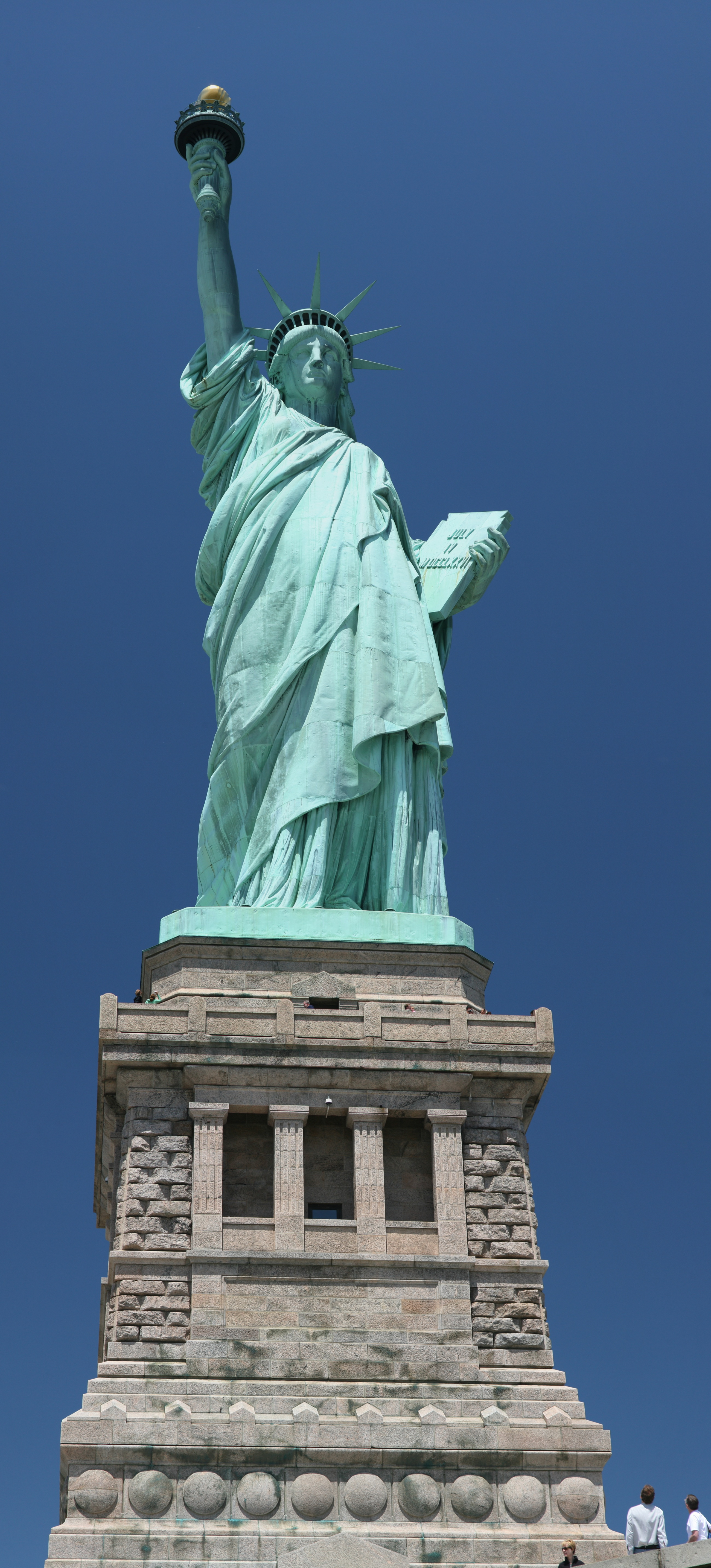 View of the Statue of Liberty from Liberty Island This image was created with Hugin